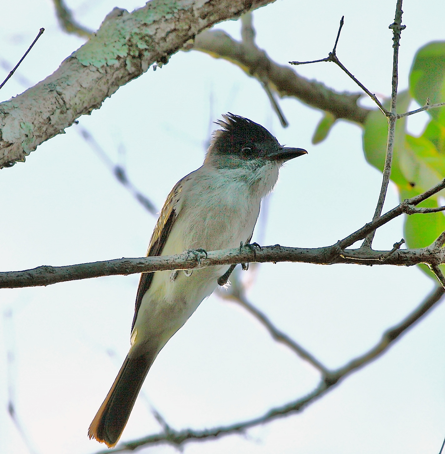 Sirystes at Bonito - MS - Brazil